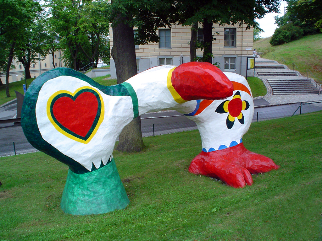 Niki de Saint Phalle "The Fantastic Paradise", 1966. Part of the sculptures infront of the Moderna Musset in Stockholm Sweden